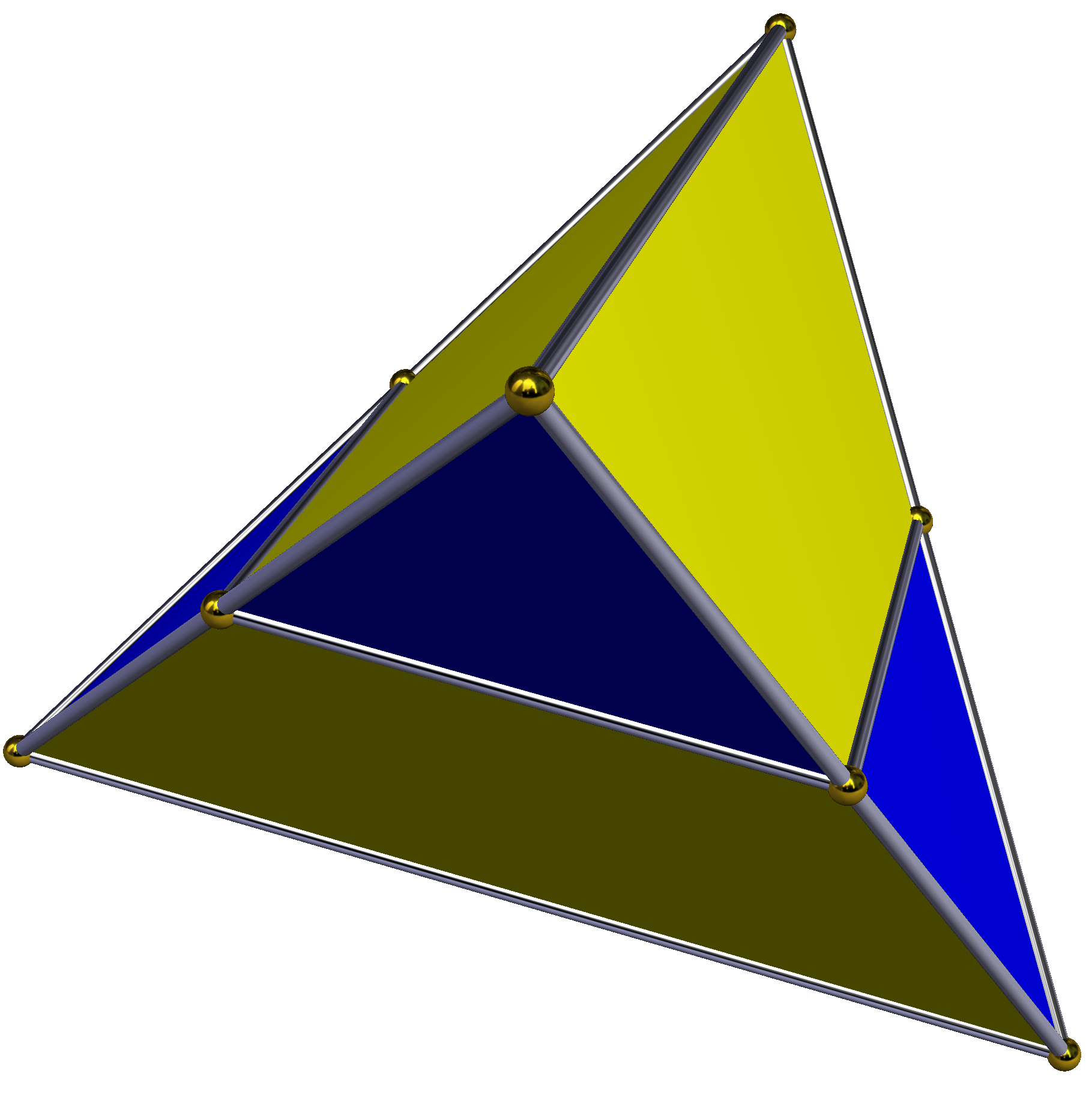 Rectified antiprism in antiprism envelope